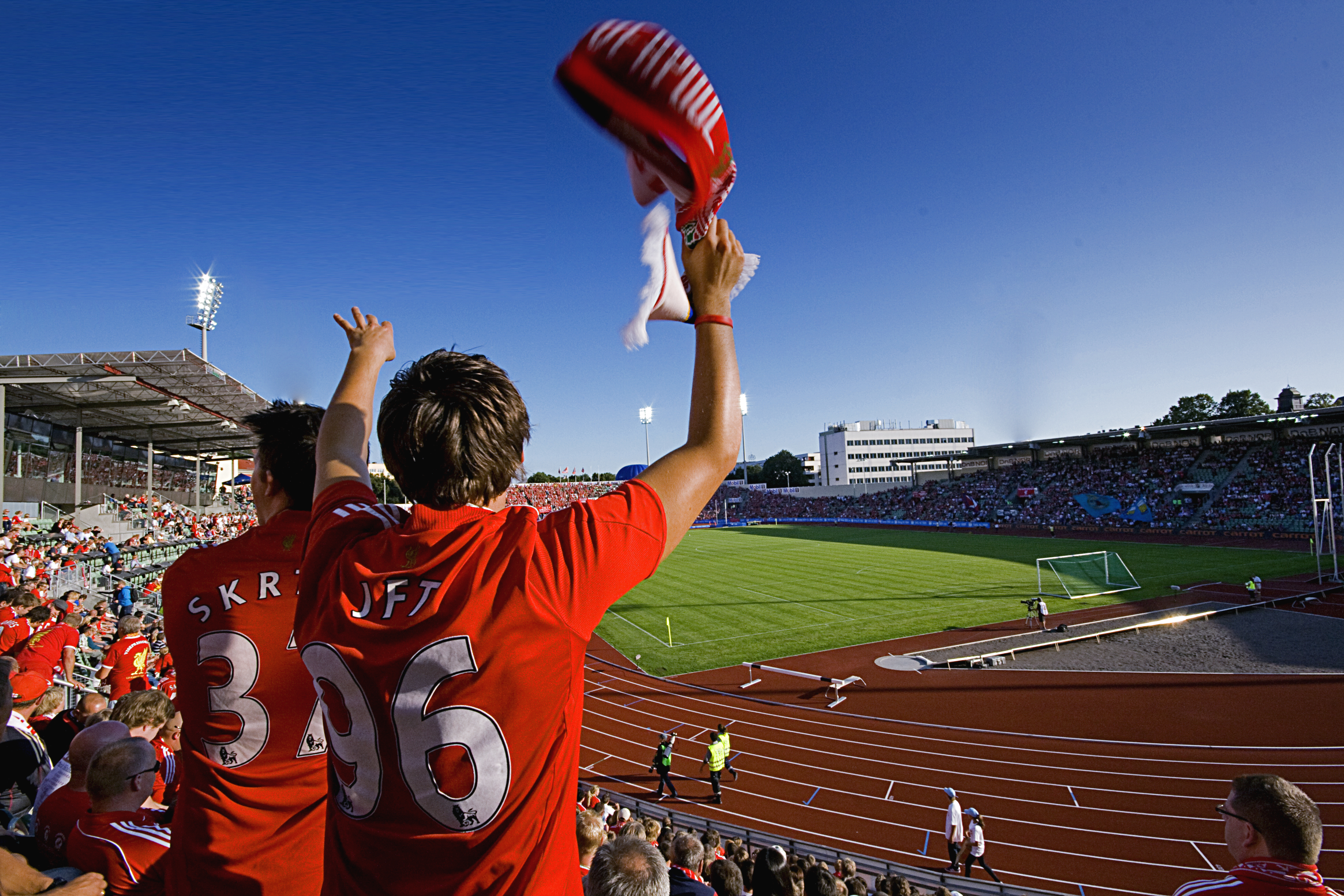 Liverpool supporters on Bislett Stadion in Oslo.